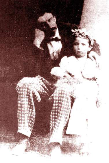 Eduardo Avaroa Hidalgo (San Pedro de Atacama, 13 de octubre de 1838 - Calama , 23 de marzo de 1879) Uno de los mayores héroes bolivianos de la Guerra del Pacífico (1879-1884. En esta foto junto a su hija Herminia.